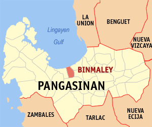 Map of Pangasinan showing the location of Binmaley